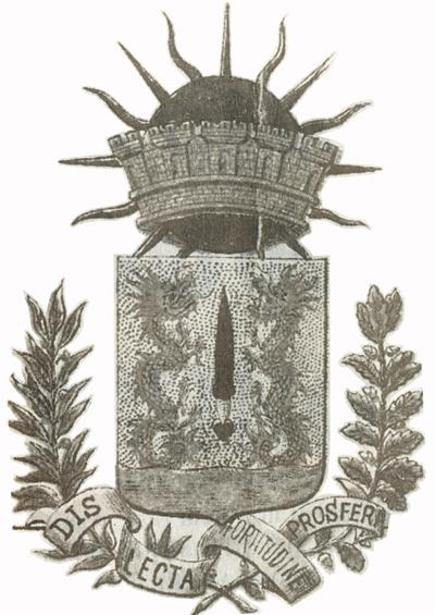 Coat of arms of Hanoi (Blason de Hanoï, Thành huy Hà Nội), used since 1888 to 1954.